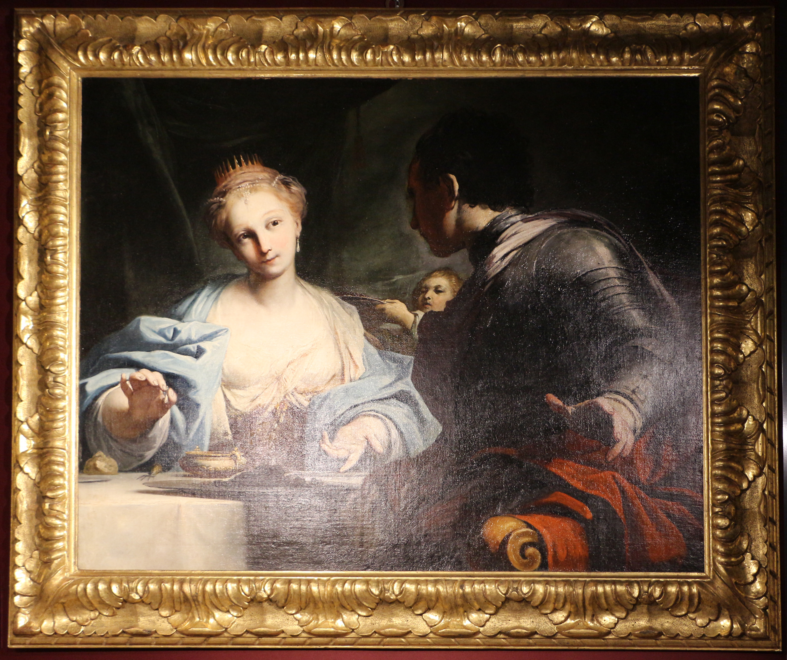 Il Tesoro d'Italia (exhibition at Expo 2015)Il Tesoro d'Italia (exhibition at Expo 2015)